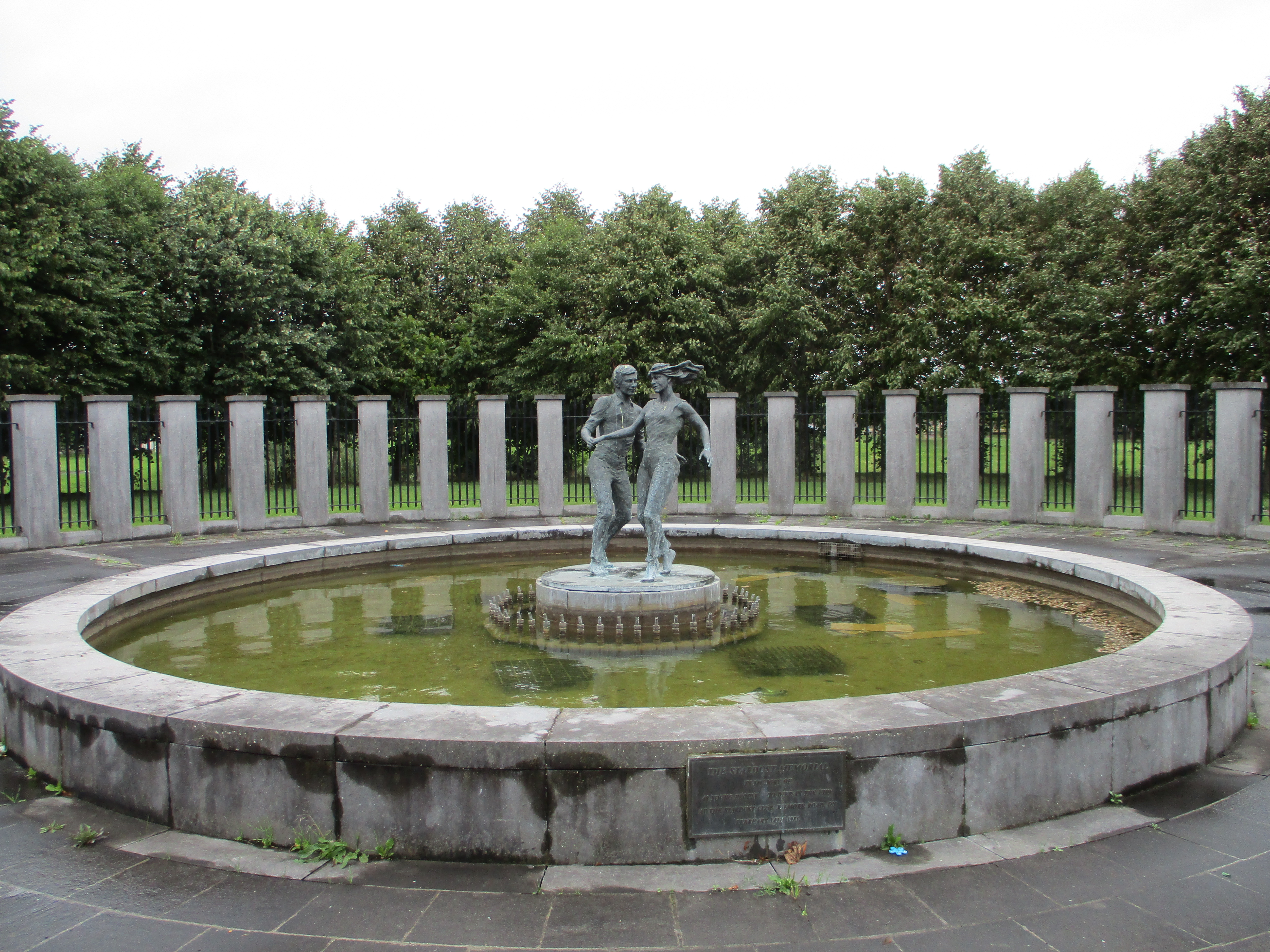 Dancing Couple sculpture in Stardust Memorial Park, Coolock, Dublin